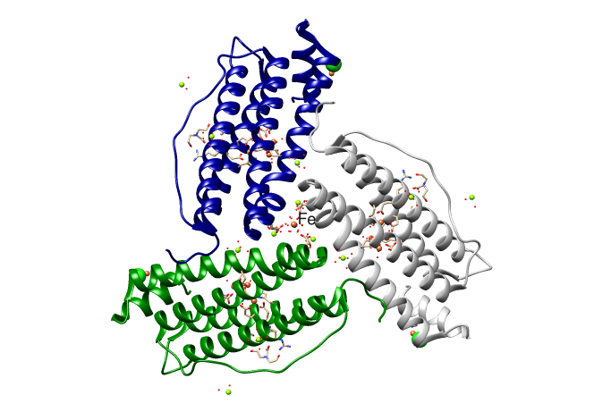 Image of proposed 3 fold channel in ferritin with iron ions